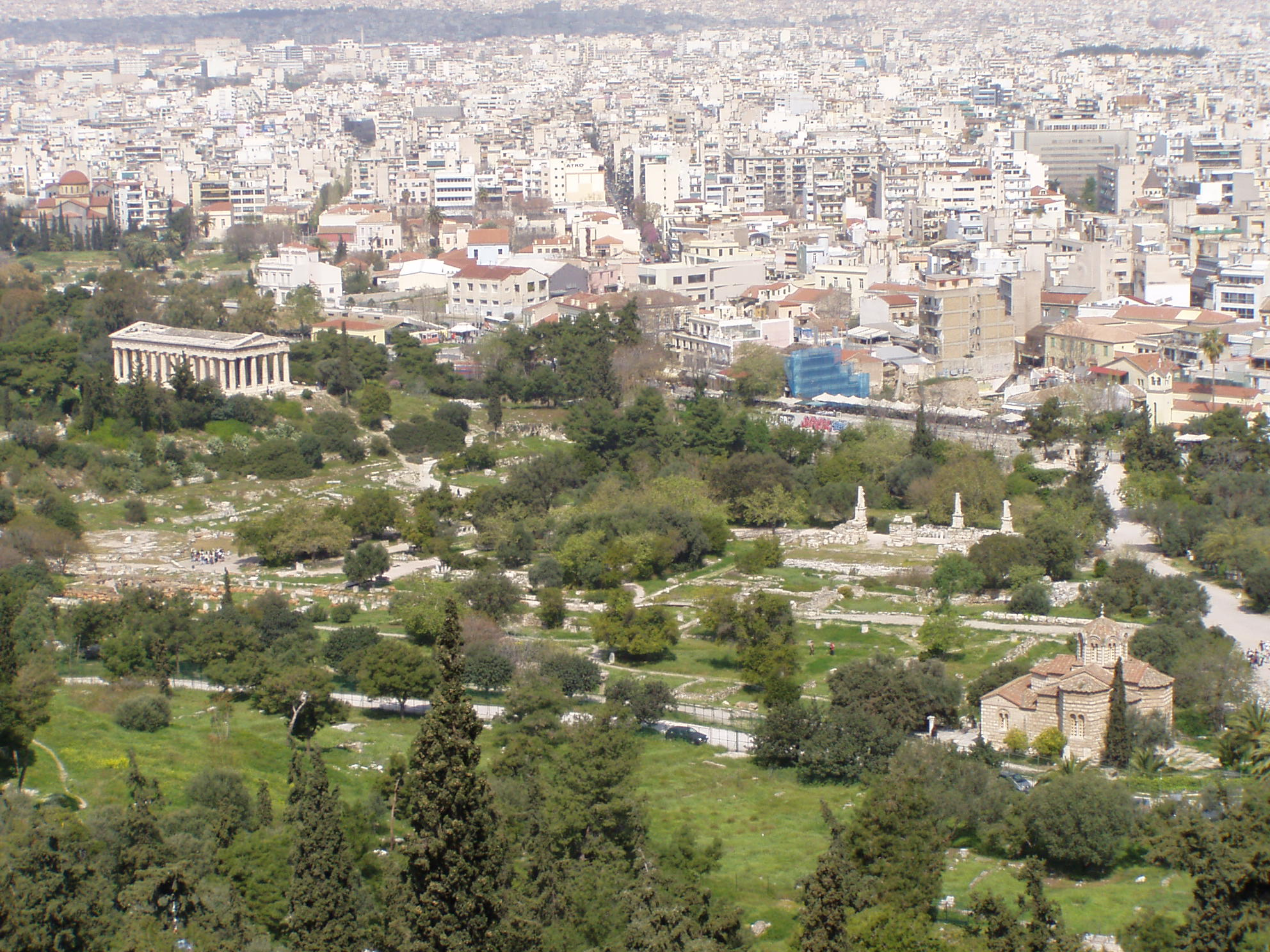 This is the Greek Agora of Athens.